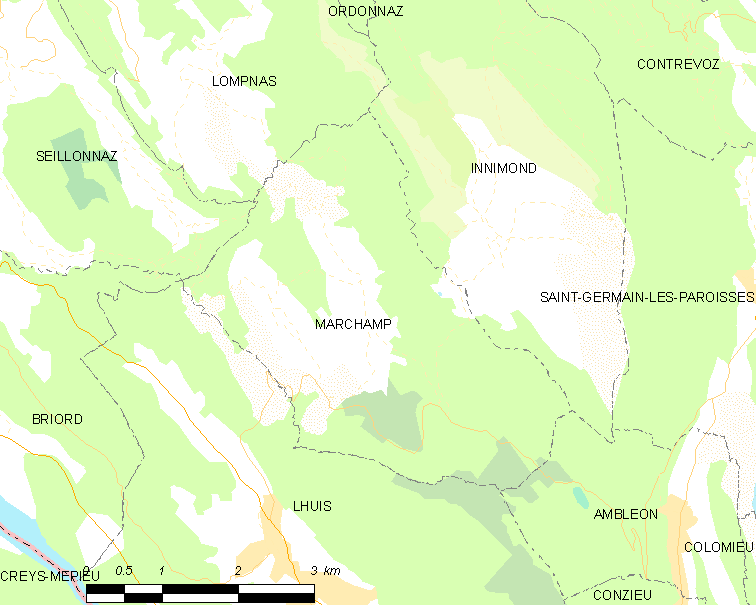 Map of French commune: Marchamp Map commune FR insee code 01233.png